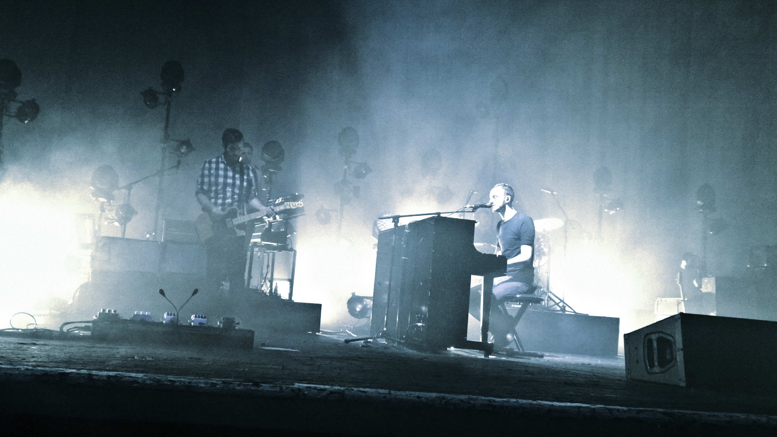 Editors, Brixton Academy, London